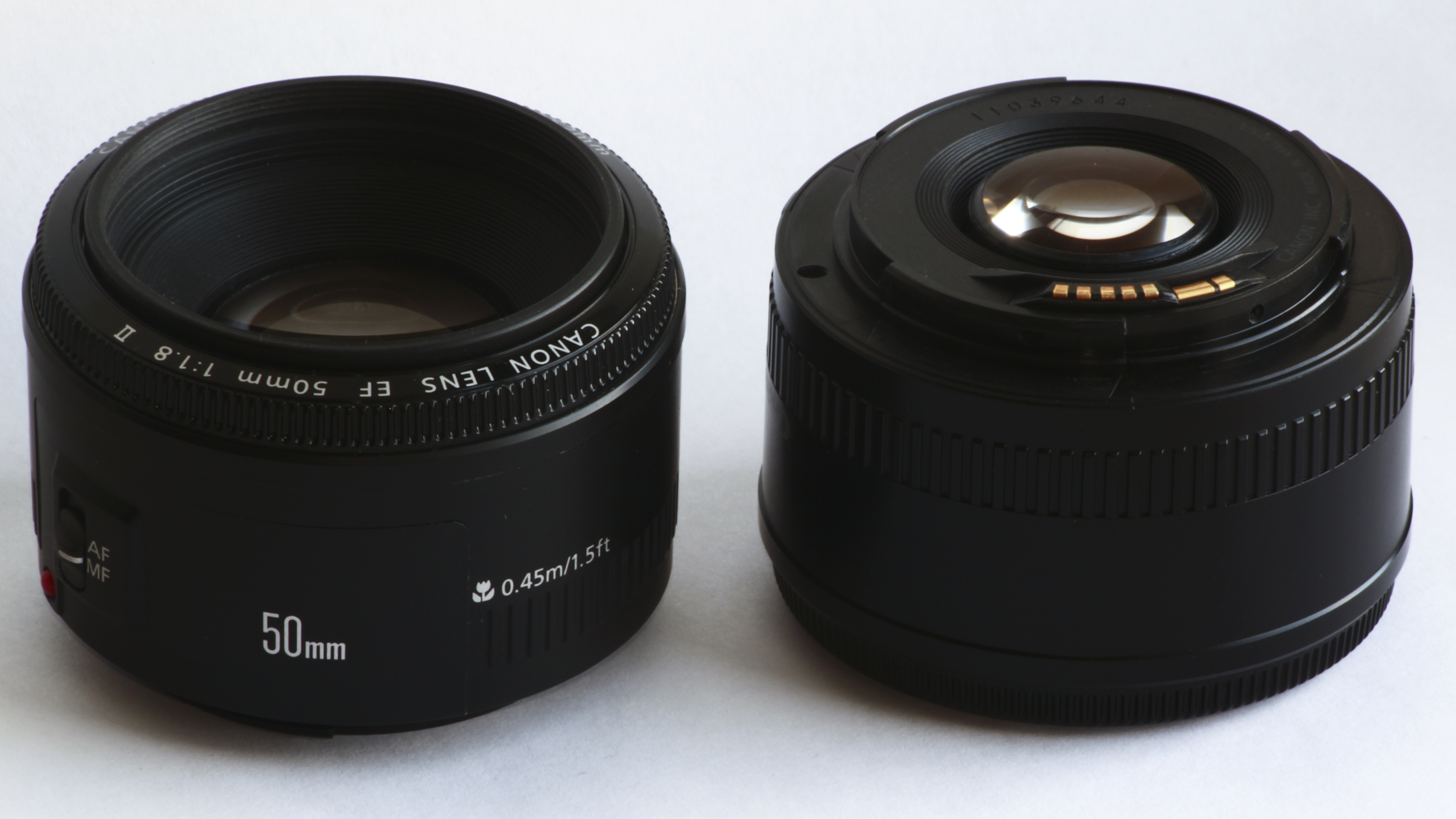 Canon EF 50mm f/1.8 II prime lens